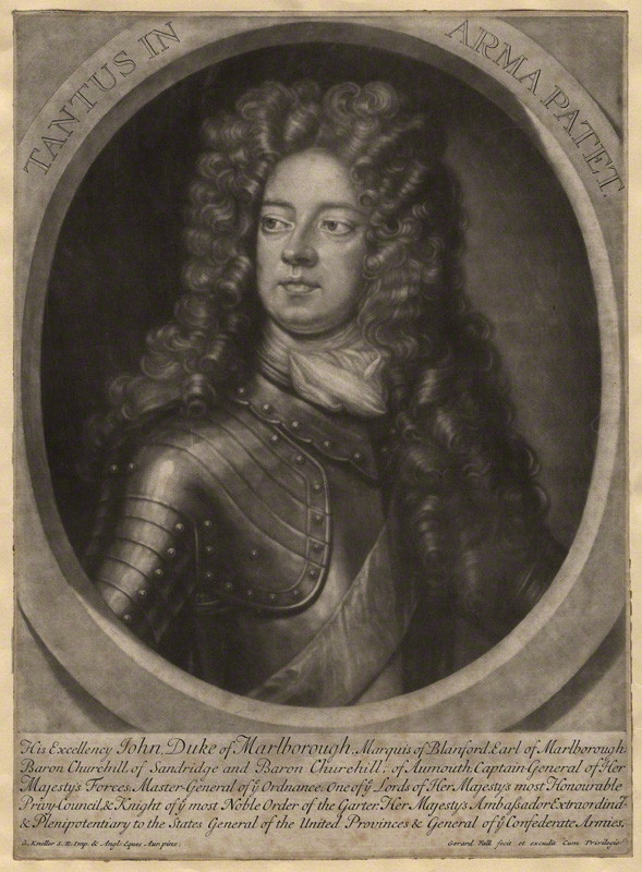 Mezzotint of John Churchill, 1st Duke of Marlborough by Gerard Valck, after Sir Godfrey Kneller, Bt